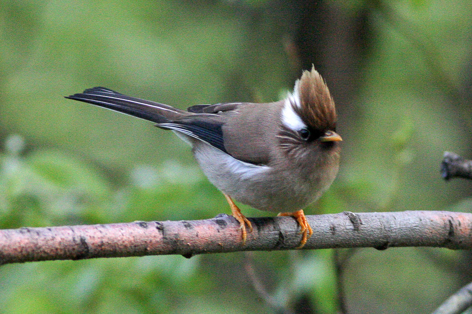 A White-collared Yuhina in Taibai Shan, Shaanxi, China.